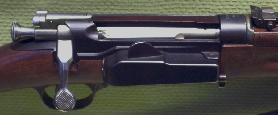 Uploader has taken this picture for use on Wikipedia.